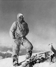 Lino Lacedelli on the summit of K2. The ice on his beard shows that he had just used oxigen mask (cfr. Robert Marshall, K2: Lies & Treachery, ISBN 0953863174)